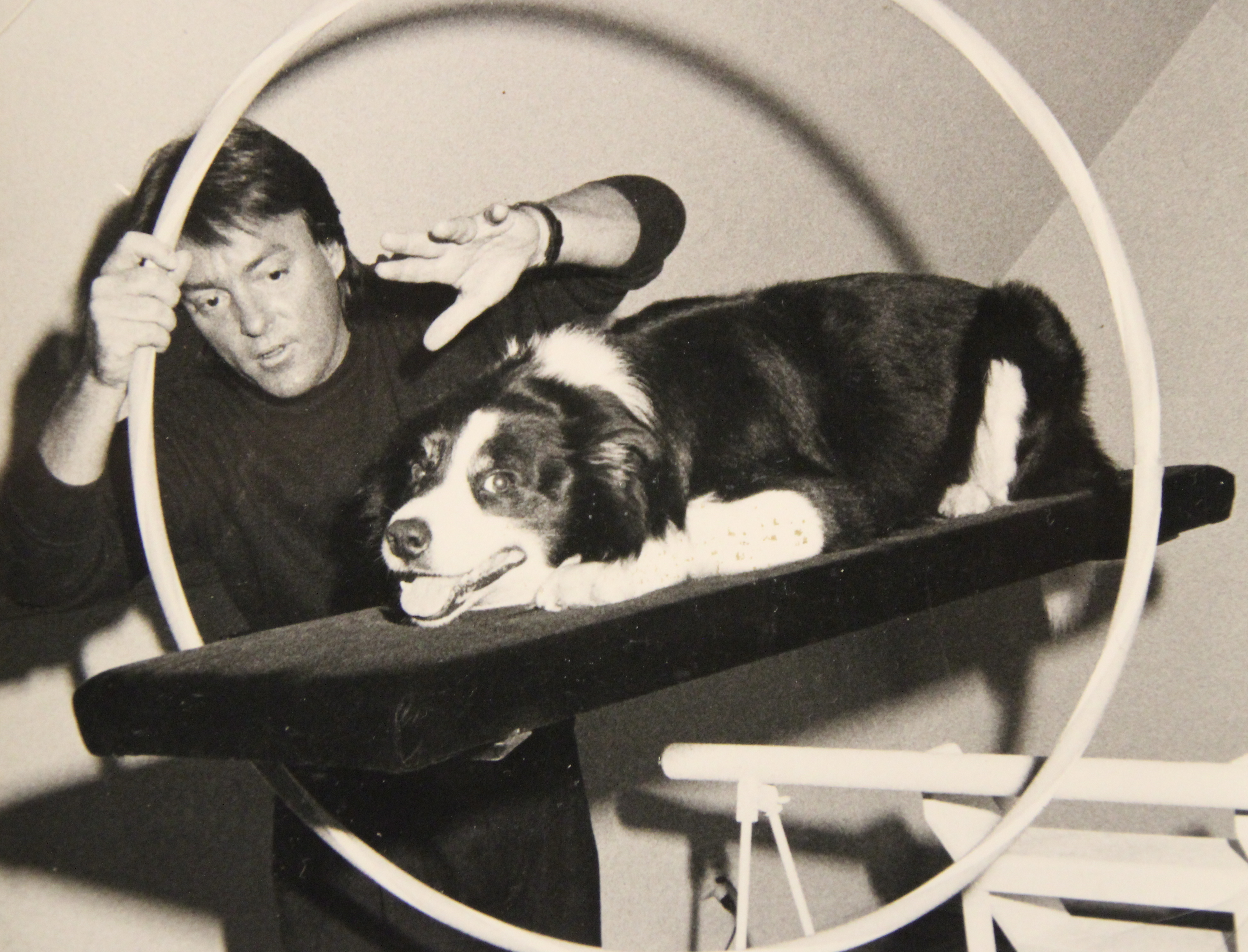 Mark Edward and Jim - Emperor of all Dogs 1984~. In rehearsal for their debut stage show at Hollywood's Magic Castle.